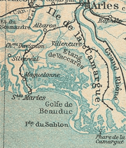 Camargue map, France